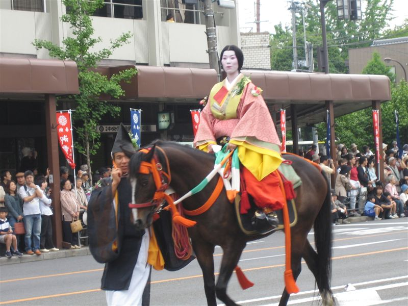 "Aoi Matsuri" parade, Japan.